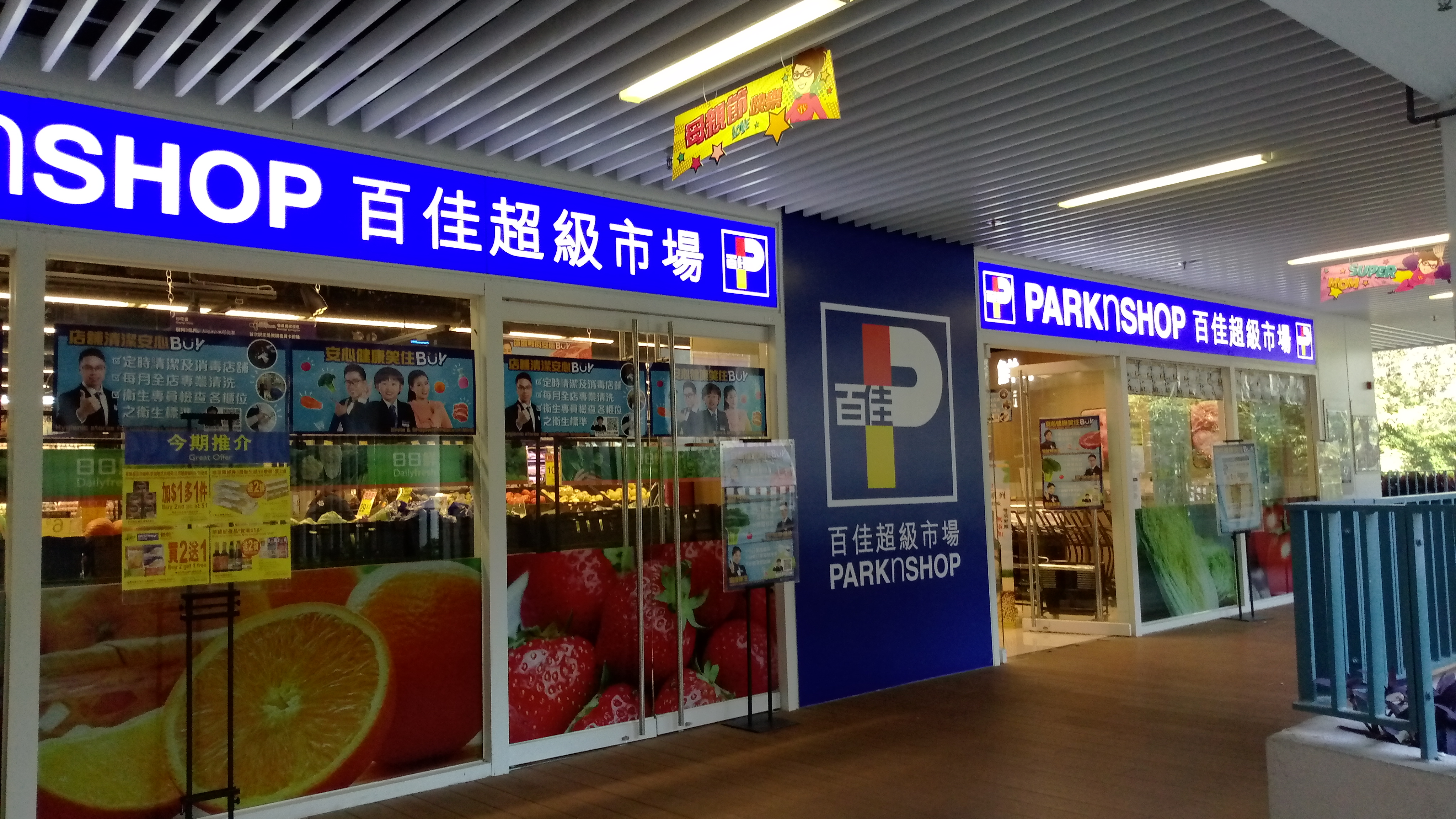 ParknShop branch on the 1st floor of So Uk Shopping Centre in Sham Shui Po, Kowloon 粵語: 在九龍深水埗嘅蘇屋商場1樓百佳分舖